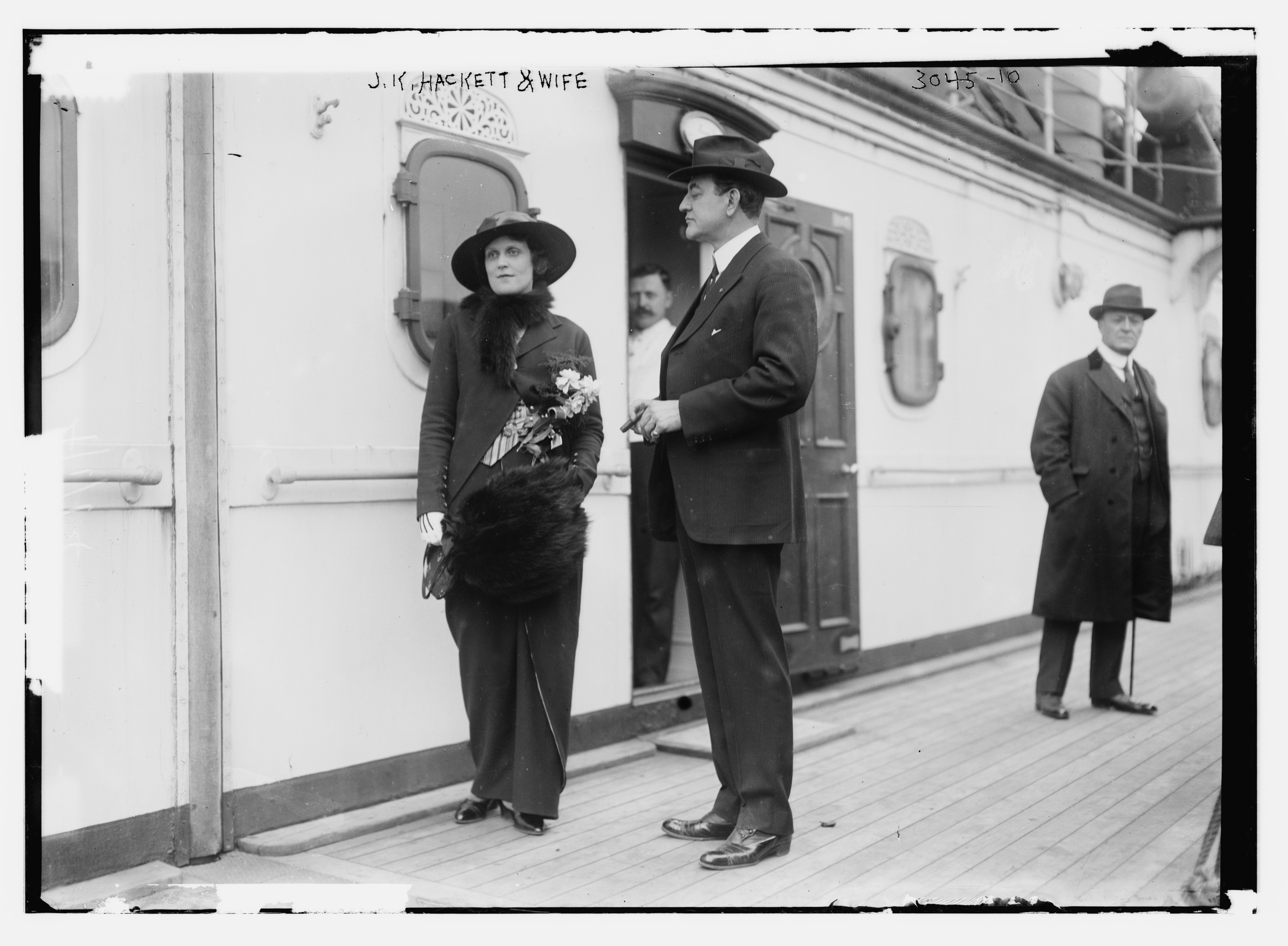 Title: J.K. Hackett and wife Abstract/medium: 1 negative : glass ; 5 x 7 in. or smaller.